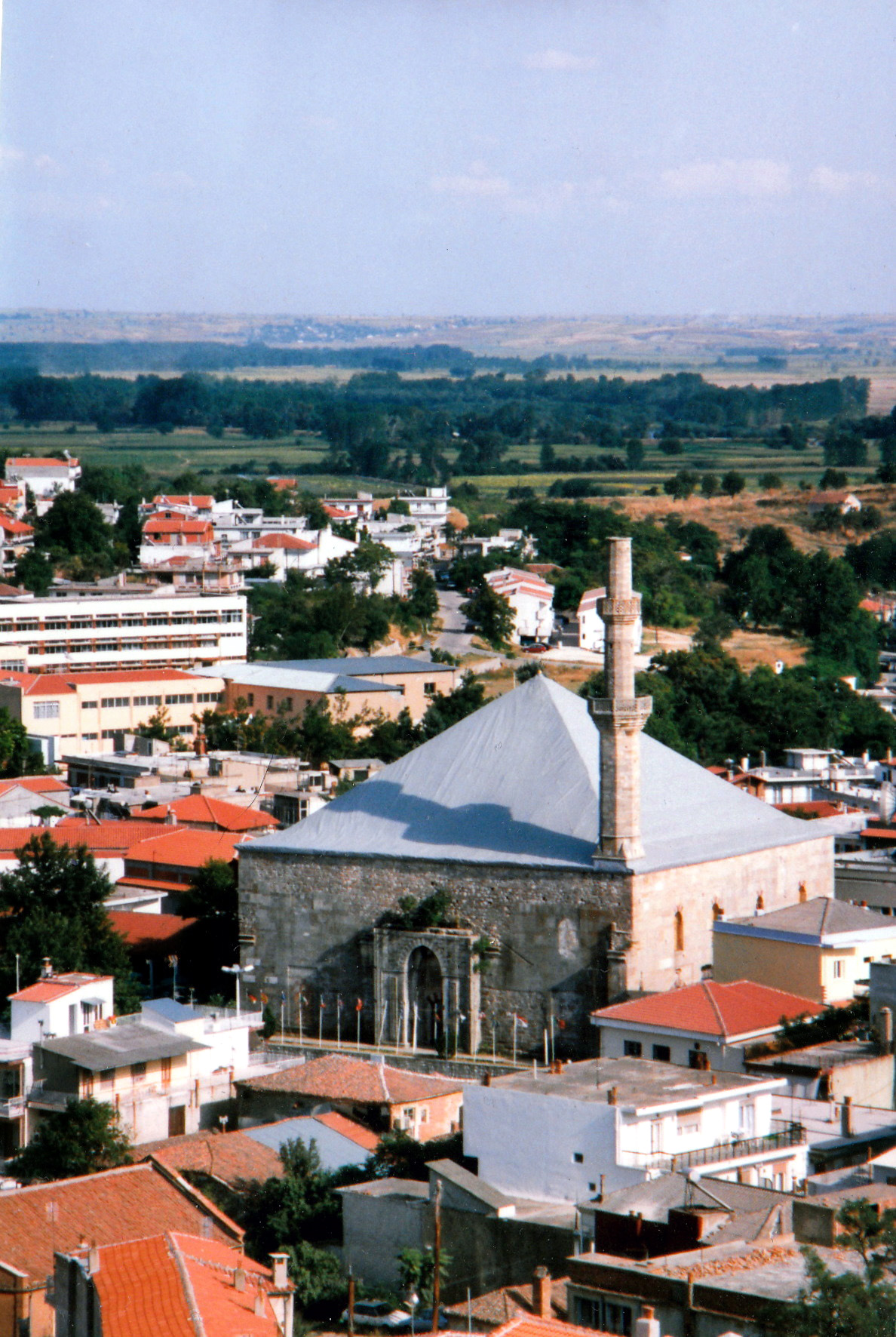 Bayezid (Mehmed I) Mosque, Didymoteicho, Evros, Greece.